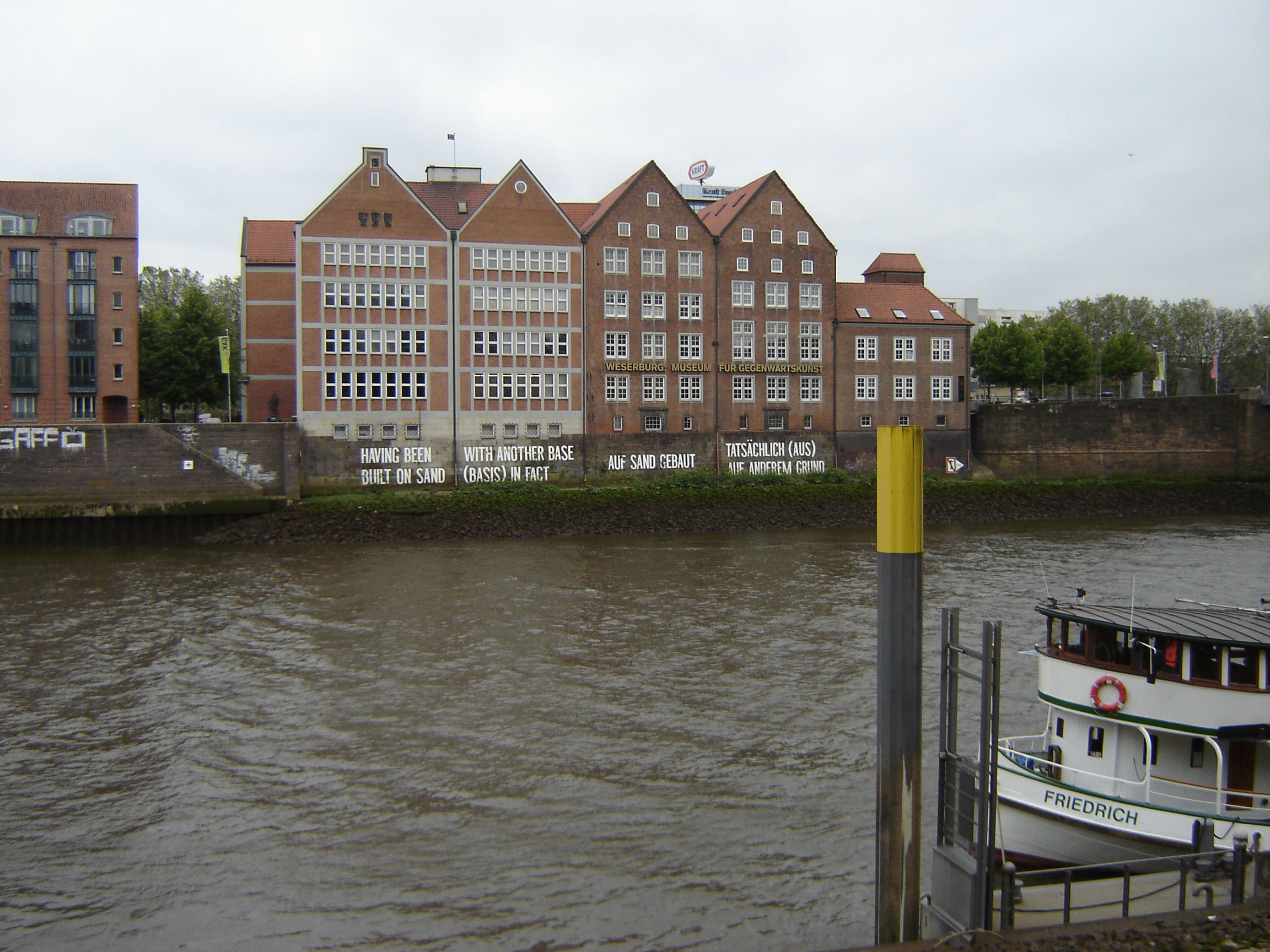 Gesellschaft für aktuelle Kunst e.V. in Bremen (Germany)